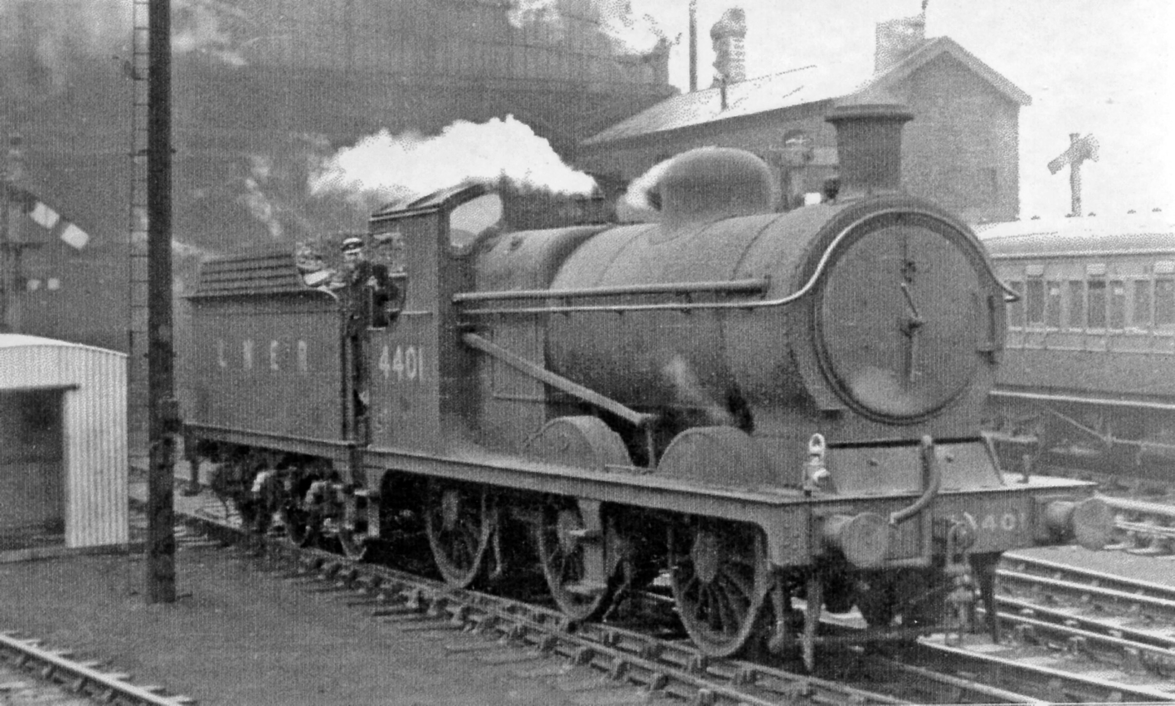 An ex-Great Central J11 0-6-0 at Manchester London Road Station. View NW in 1948 into the Eastern Region (ex-LNER, ex-GCR) part of the terminus(Platforms A, B and C), which adjoined but was operated separately from the larger London Midland Region (ex-LMSR) section until in 1960 (with all lines by then electrified) the Station was rebuilt and renamed Manchester Piccadilly. No. 4401 was one of the popular Robinson J11 0-6-0s.